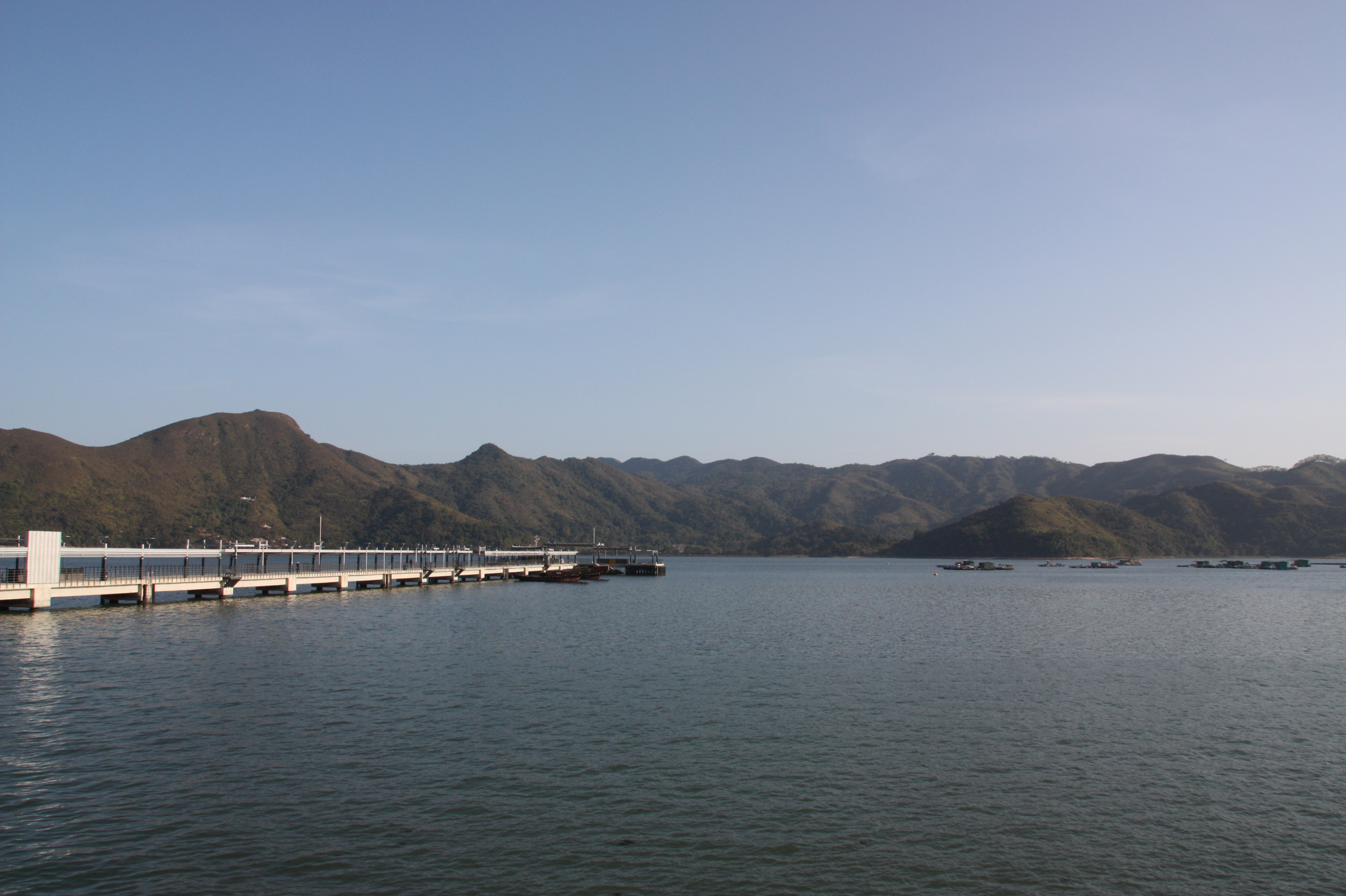 Starling Inlet or Sha Tau Kok Hoi